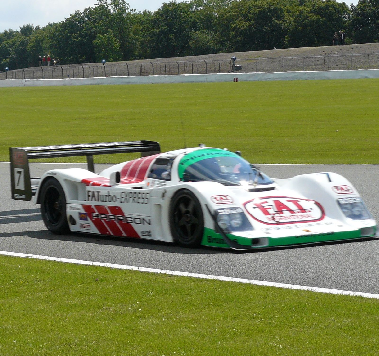 A Porsche 962 at the Silverstone Classic